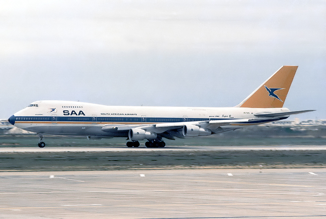 A South African Airways Boeing 747-200BM Combi (combined variant, carrying both passengers and cargo), ZS-SAS. On 28 November 1987, this plane caught fire and crashed on landing approach to an airport in Mauritius. IsiXhosa: Inqwelo i-Boeing i-Boeing 747 - 200BM Combi yeeNdlela zoMoya yaseMzantsi Afrika (zidityaniswe ezahlukeneyo, iphatha abakhweli nempahla), ZS-SAS. Ngomhla 28 EyeNkanga 1987, le nqwelo yabamba umlilo yaqhekeka ukufika kwayo kwisikhululo seenqwelo eMauritius.